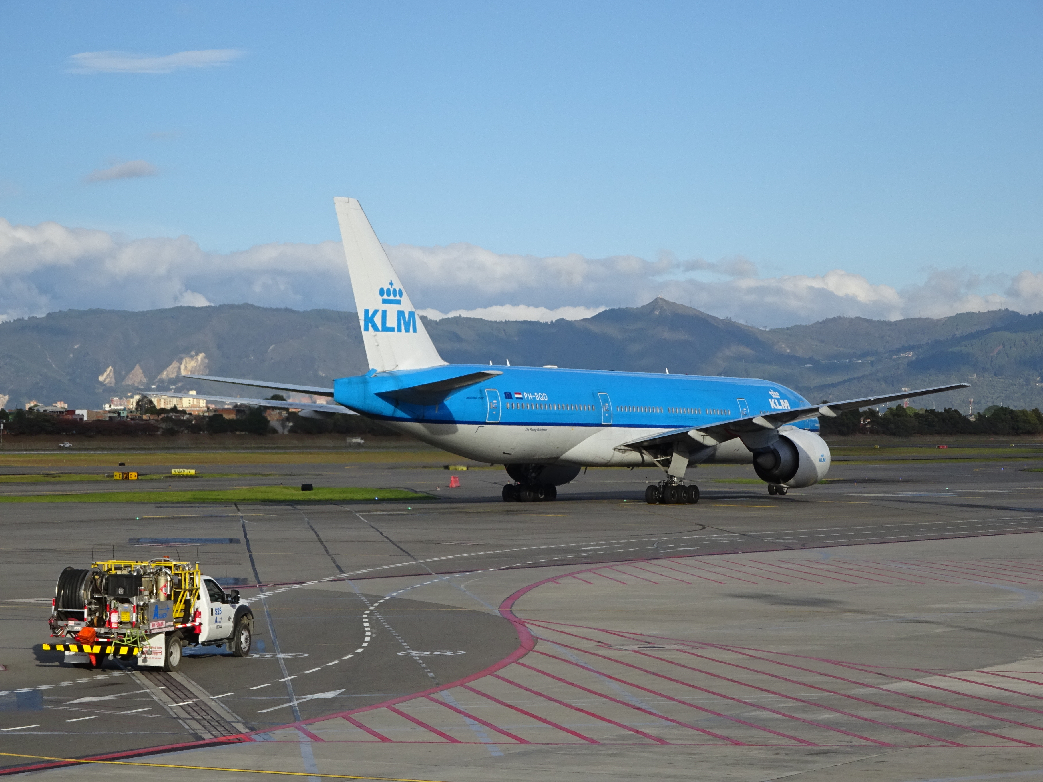 A KLM Boeing 777-200ER (PH-BQD) at the El Dorado International Airport in Bogota.